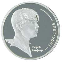 Coin of Ukraine